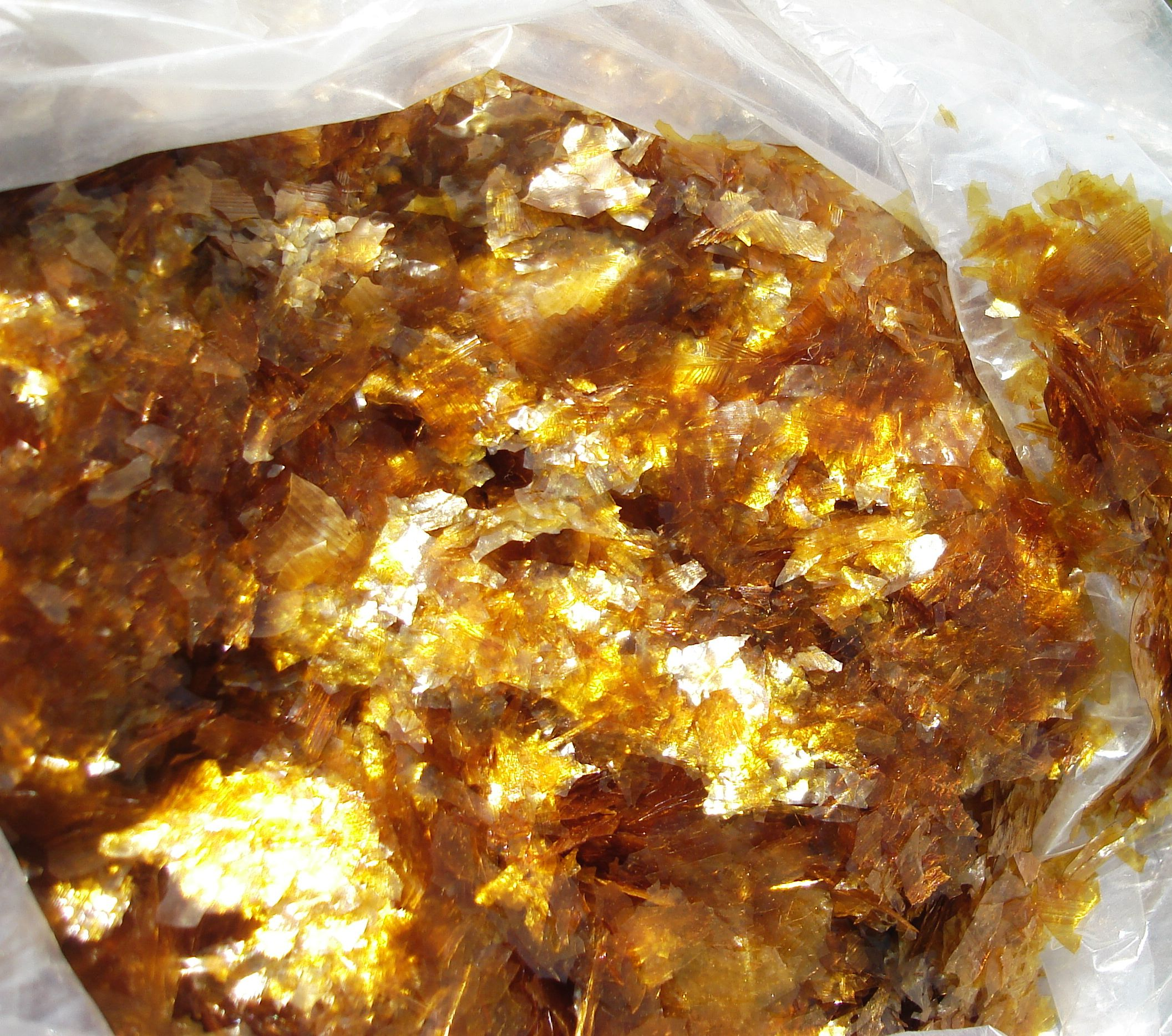 shellac